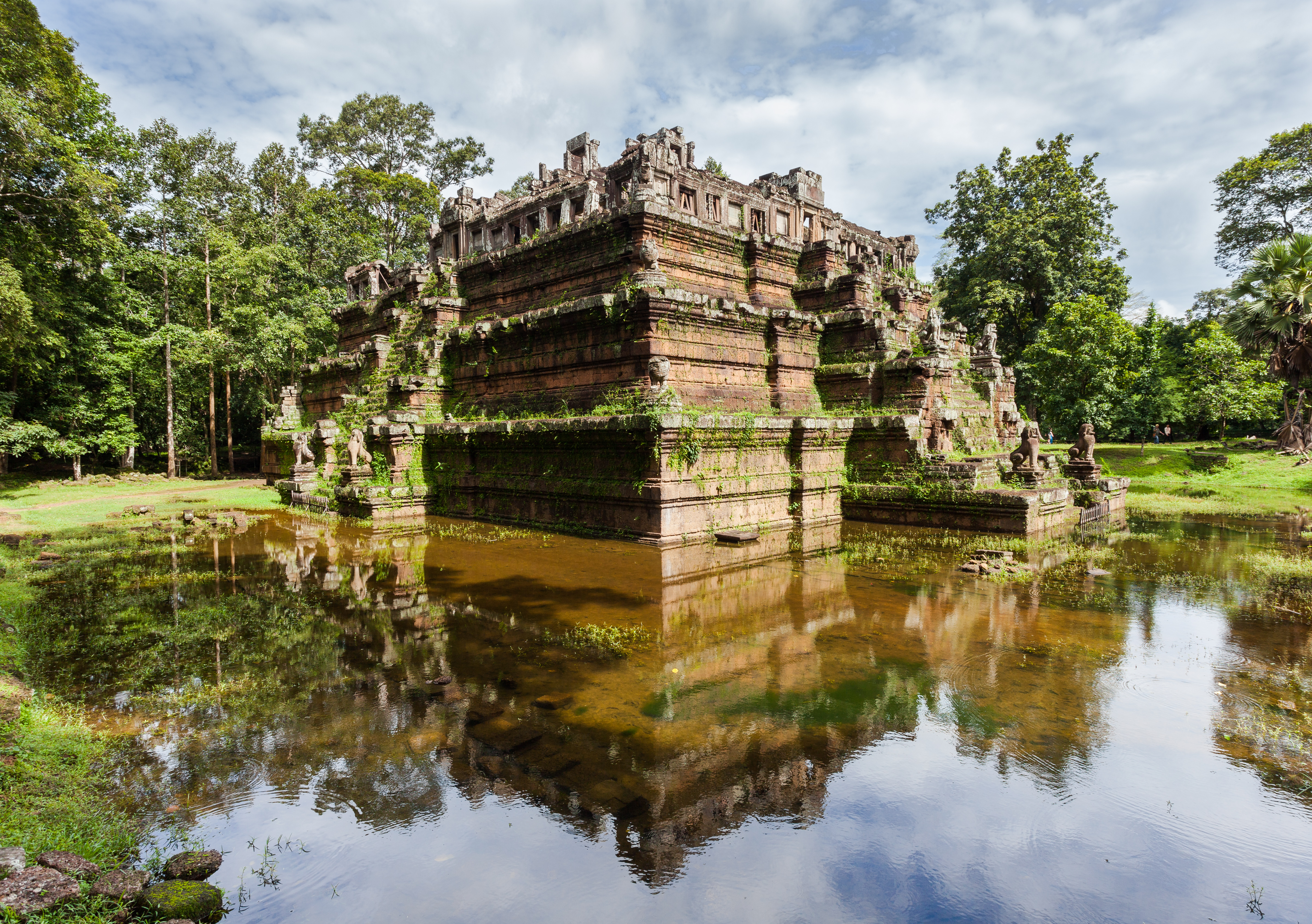 Phimeanakas, Angkor Thom, Cambodia